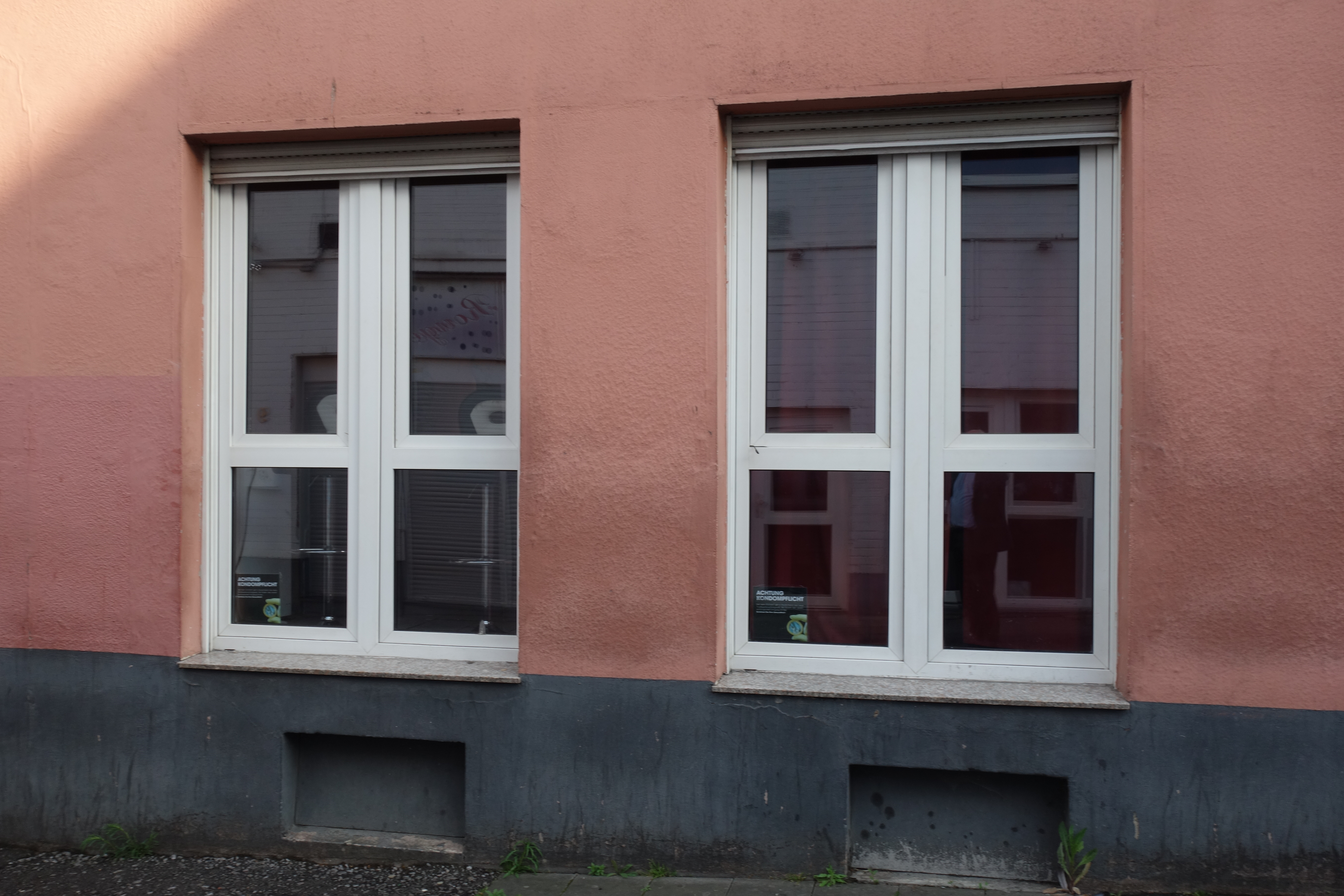 Antoniusstraße Aachen